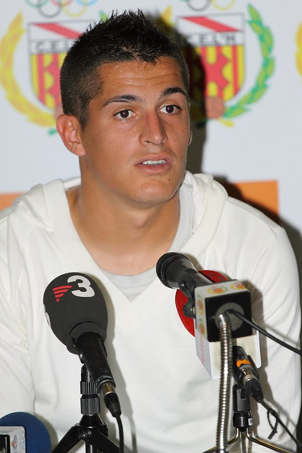 Spanish football player Marc Pedraza